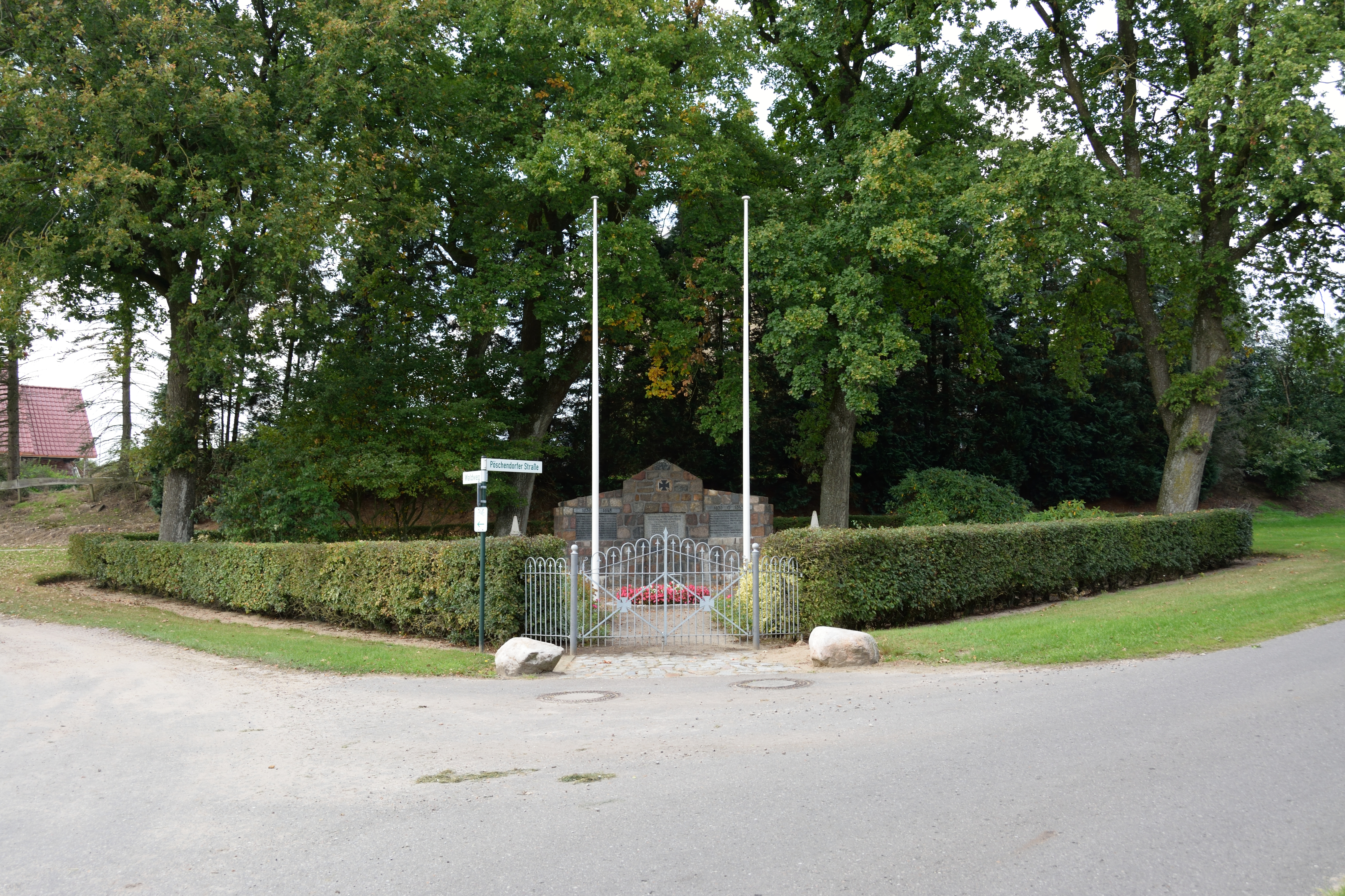 Ehrenmal in Looft